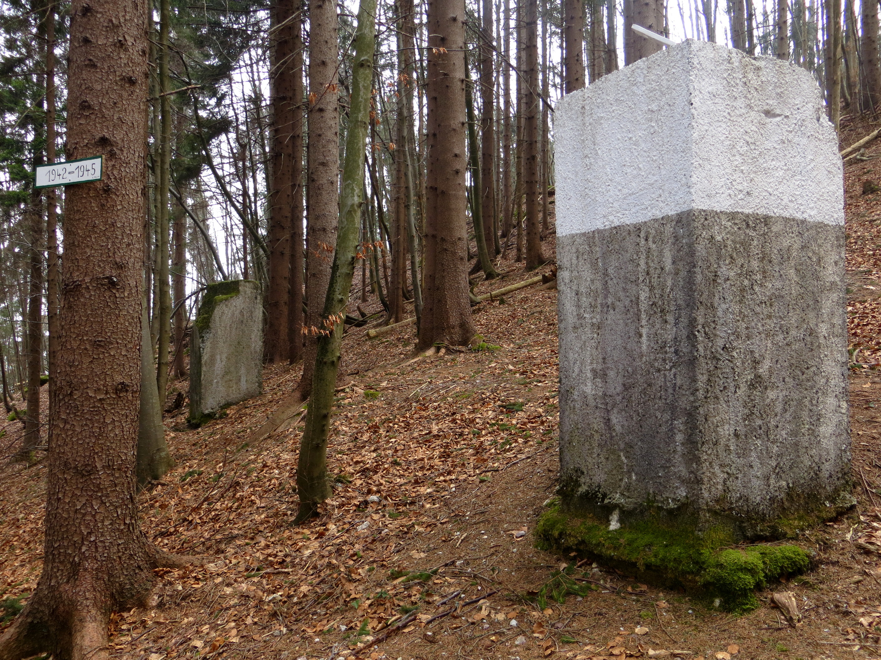 Remnants of the foundations of a Second World War border watchtower on the German-Italian border in Šentjošt nad Horjulom, Municipality of Dobrova–Polhov Gradec, Slovenia